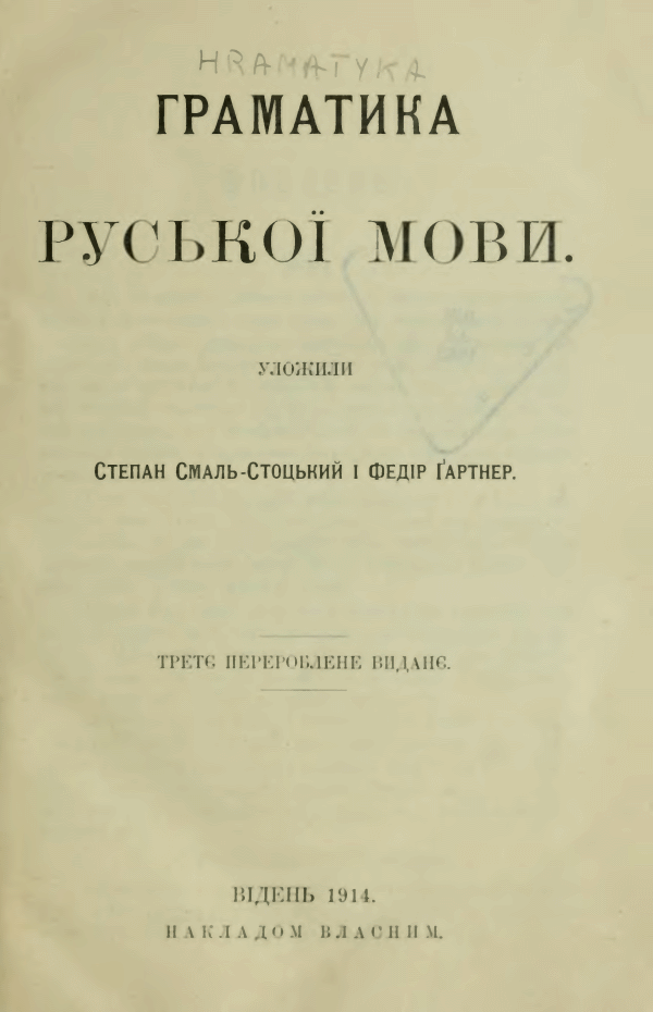 Stephan Smal-Stockyj, Theodor Gartner "Rusyn language grammar", 3d edition, published in Vienna, 1914